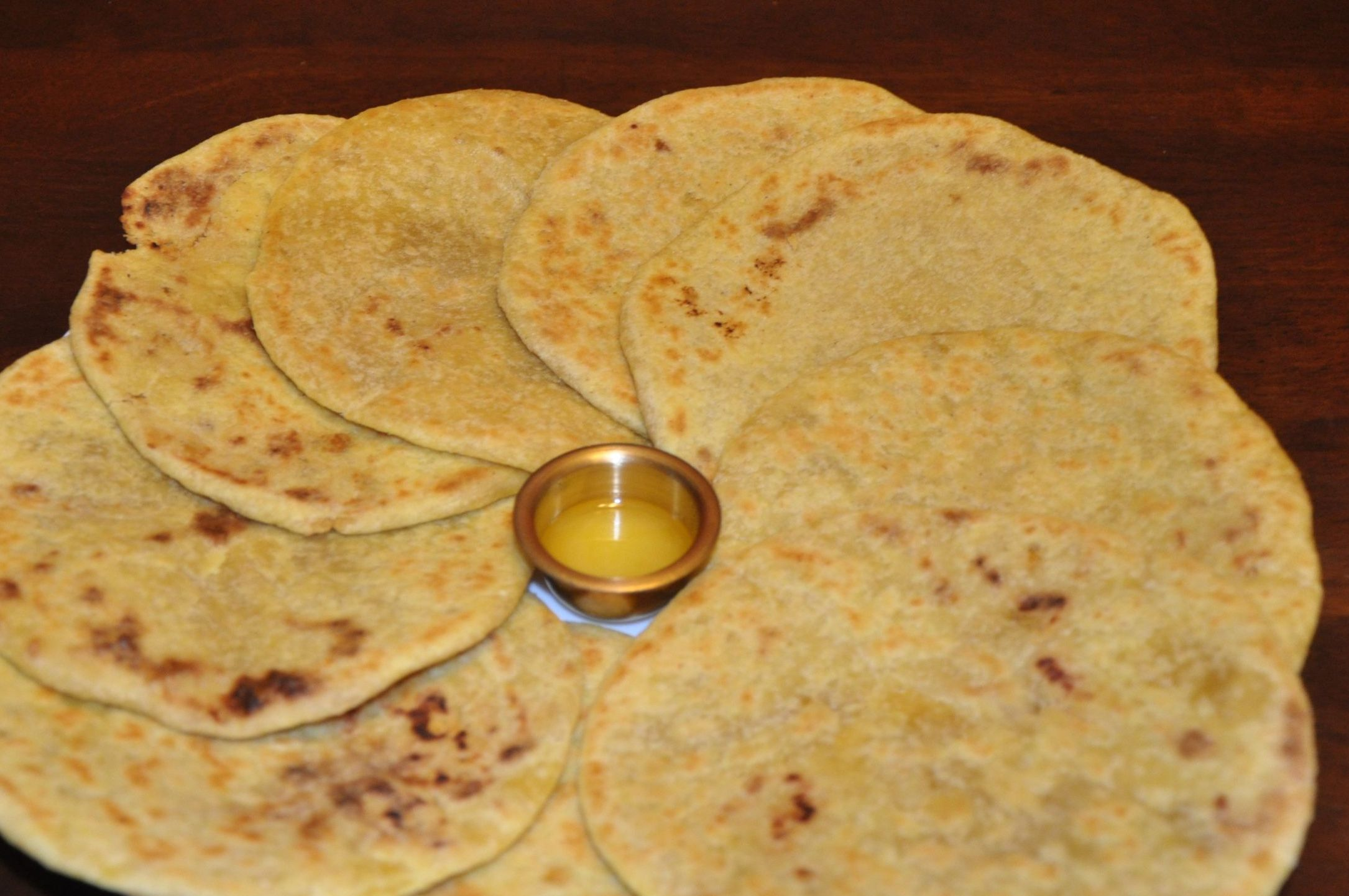 The dish named as "Holige" which is one of the famous food dishes in south India, specially in Karnataka. It's like a traditional dish of Karnataka. Usually will make it in fests...